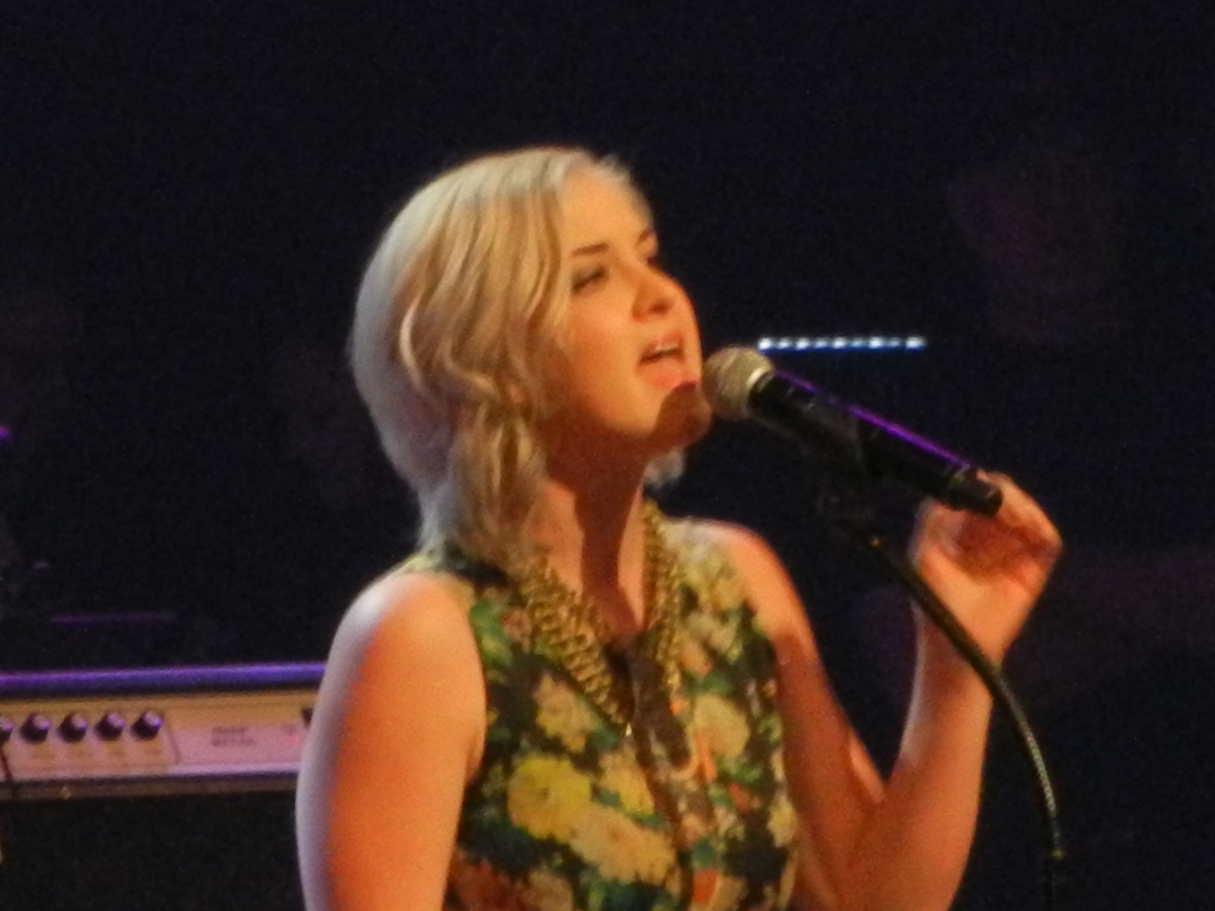 Maggie Rose Performs at the Grand Ole Opry, Nashville, Tennessee, 23 February 2013